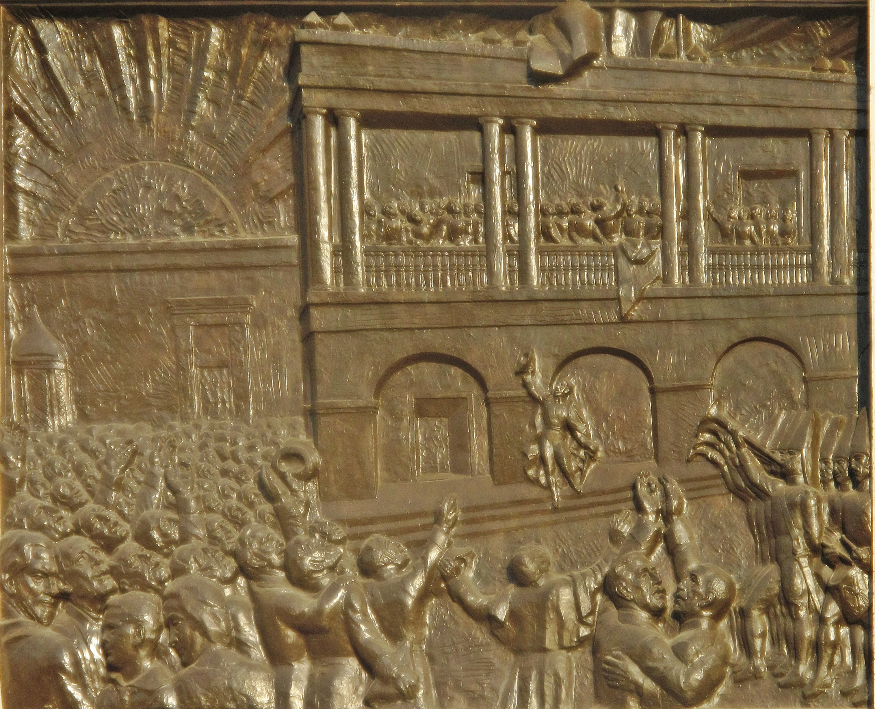 Proclamación de la Libertad - Trujillo